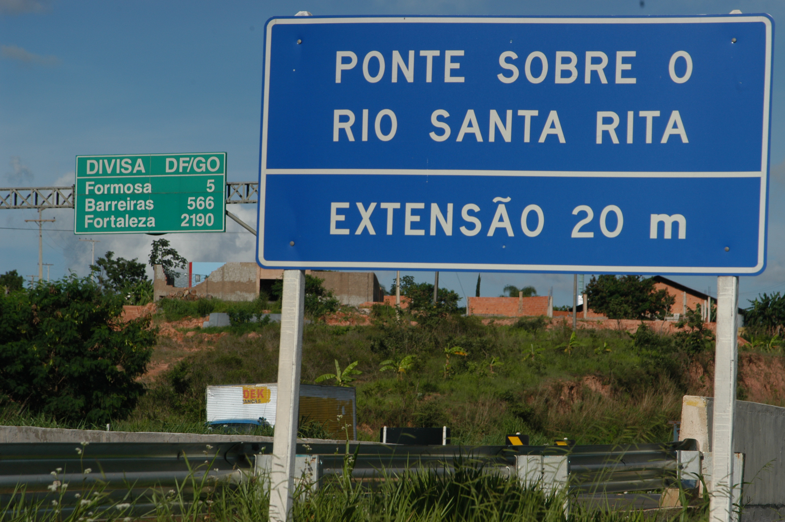 BR 020 on the border DF-GO